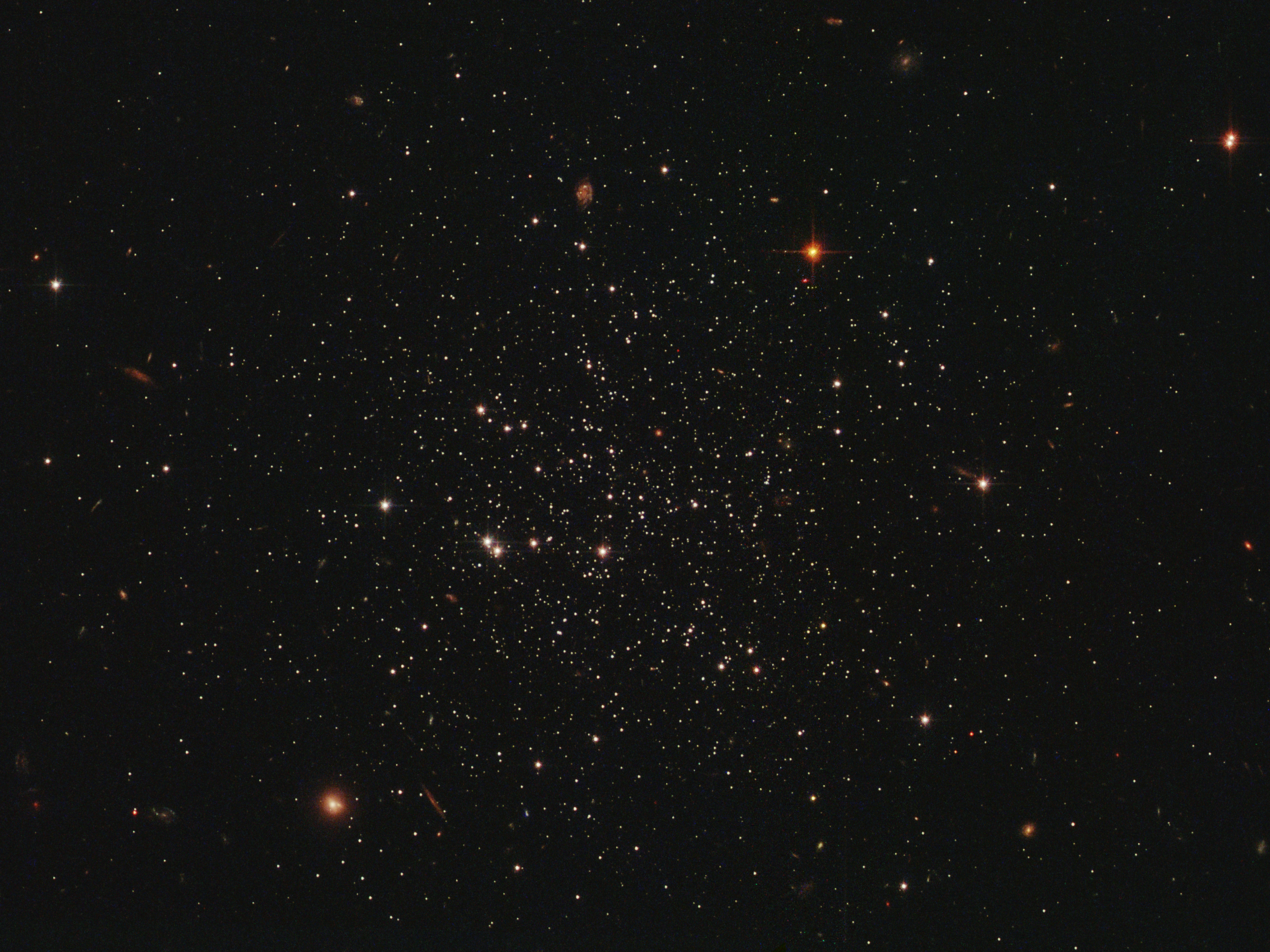 A faint, sparse globular cluster, and at the time of writing, most distant member of its kind from our vantage point. I don't know much more about it, so here is a quick link to the Wikipedia article: Later on I'll add a link to another article. Hat tip to Phil Plait for pointing me to this dataset! Following is a link to the abstract for the proposal which produced these observations. Is the Crater satellite the Milky Way's Smallest Dwarf Galaxy or its Largest Globular Cluster? Red: ACS/WFC F814W Green: ACS/WFC F606W Blue: ACS/WFC F555W & WFC3/UVIS F390M to fill chip gap North is 18.91° clockwise from up.